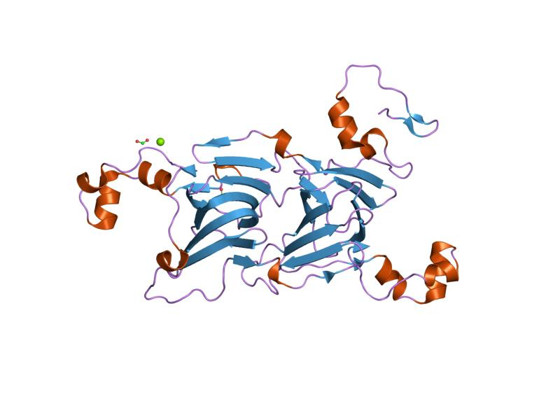 Cartoon representation of the molecular structure of protein registered with 1l3j code.